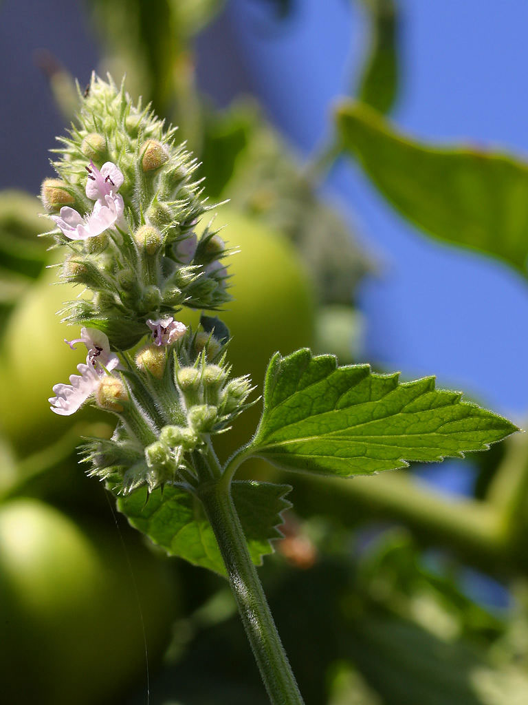 Catnip blossoms (Nepeta cataria)